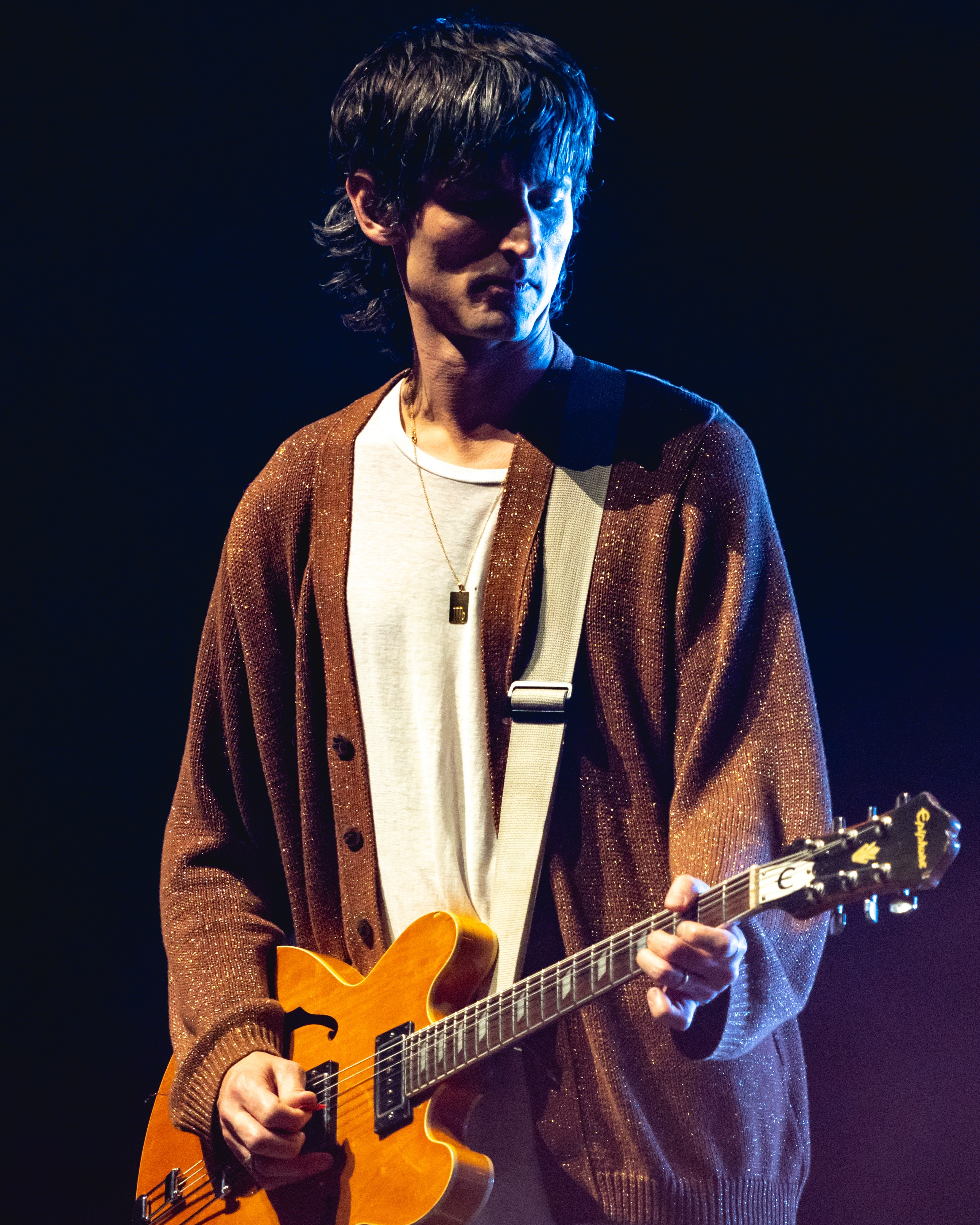 Nick Valensi performing guitar for the Strokes at the Barclays Center in Brooklyn, New York, on December 31, 2019.